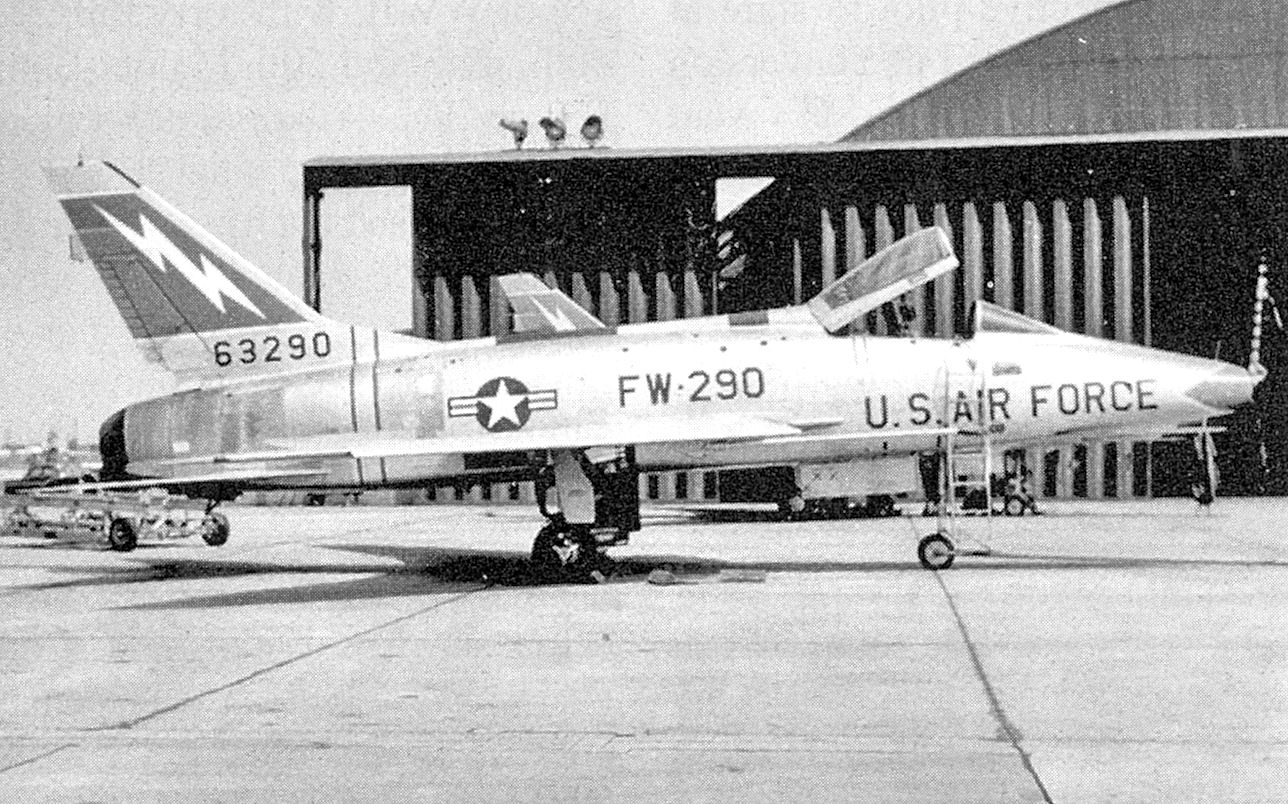 North American F-100D-90-NA Super Sabre 56-3290, 7th Tactical Fighter Squadron, 49th Tactical Fighter Wing, Étain-Rouvres AB, France. The aircraft was transferred along with the 49th to Spangdalem AB, West Germany in 1959. It crashed 18 miles north of Spangdahlem AB, on Mar 18, 1960. Pilot ejected safely